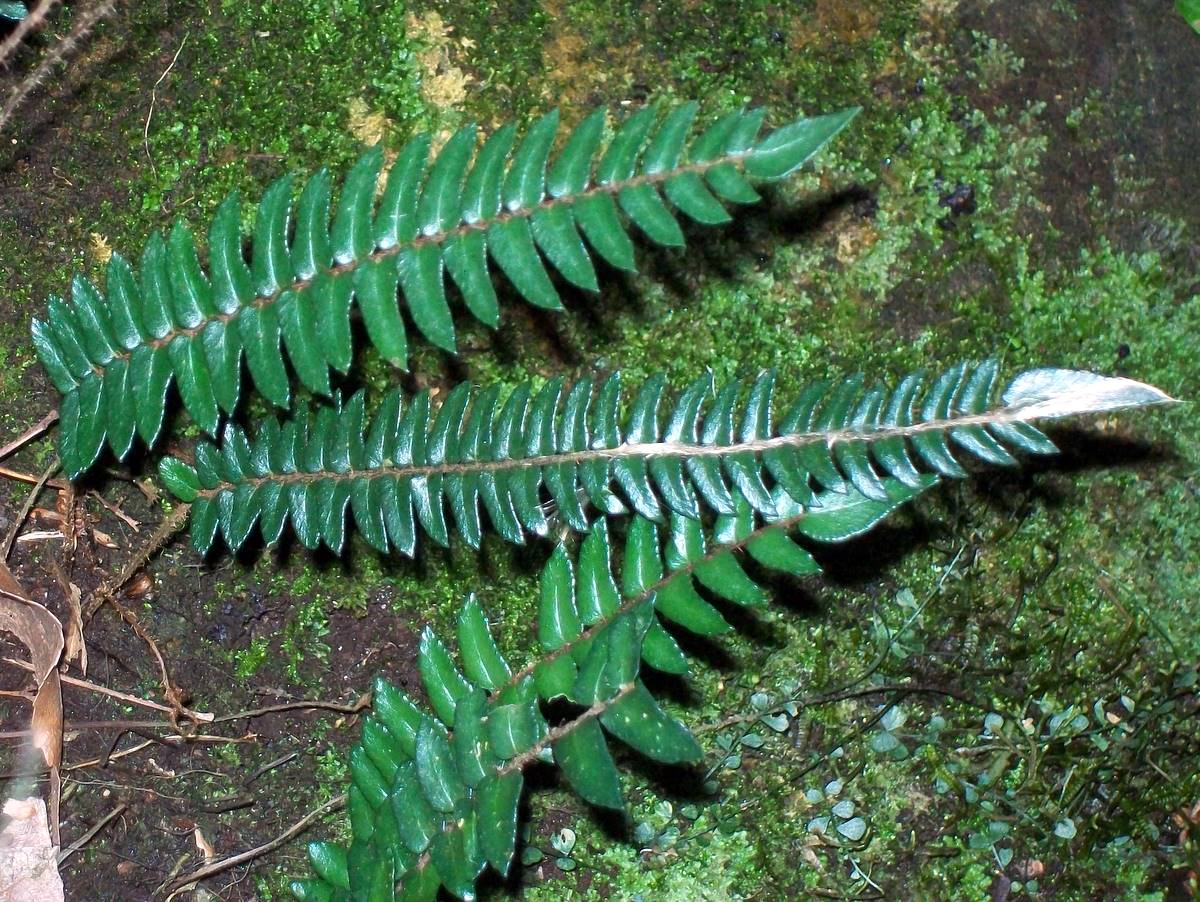 Sickle Fern, likely to be Pellaea nana. Happy Valley walk, Mount Wilson, Blue Mountains National Park, Australia